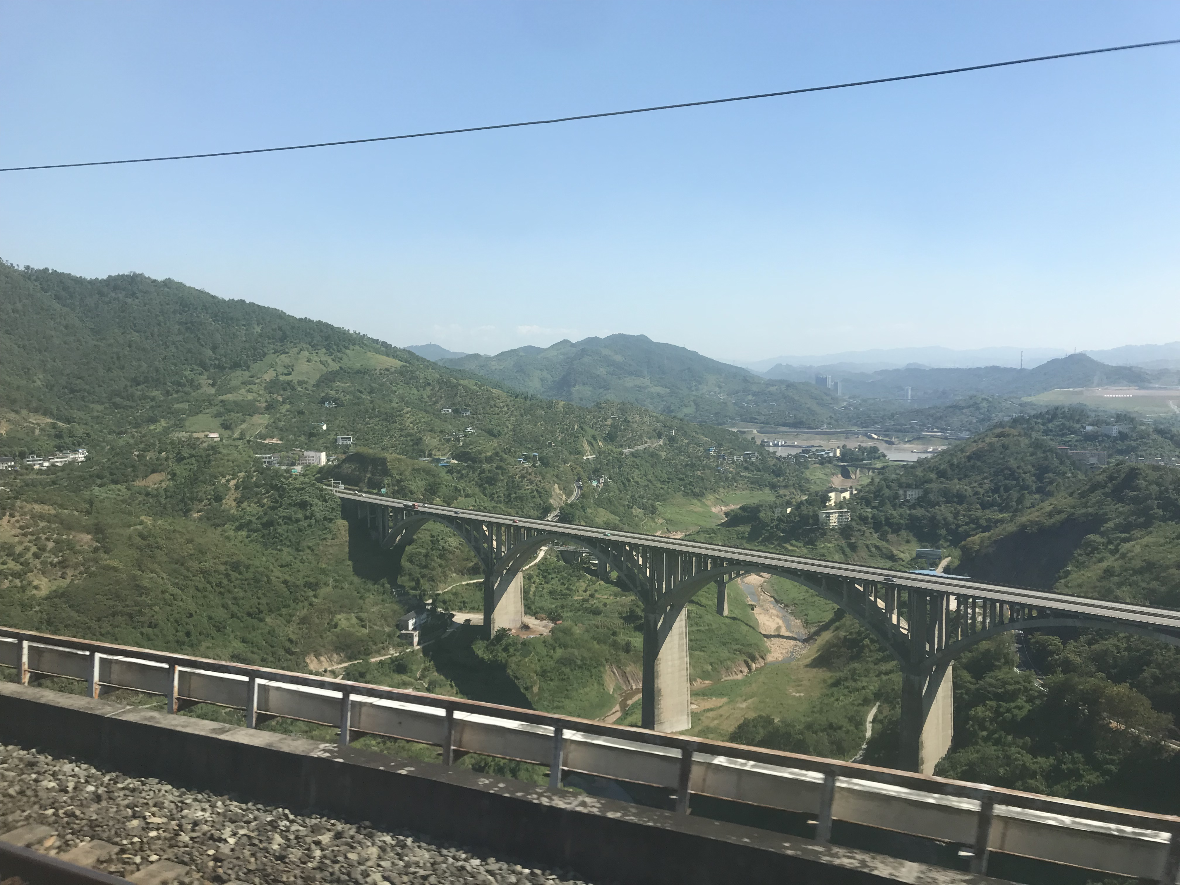 201908 Changshou-Fuling Expressway